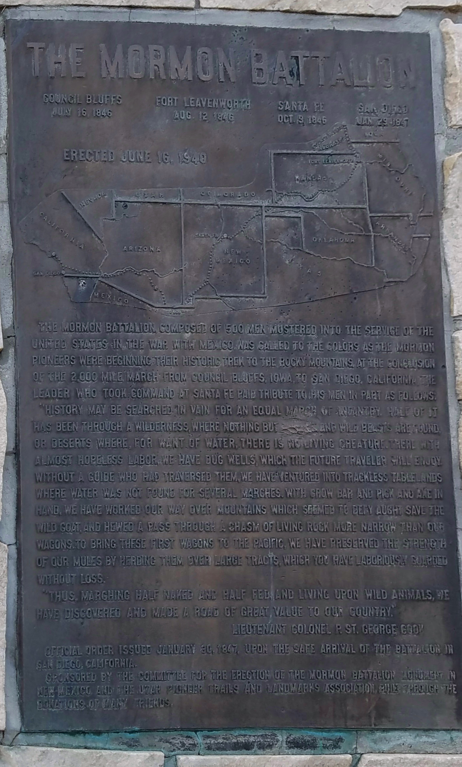 Zoomed in photo of the plaque of the mormon battalion monument located in sandoval county. Photo taken 2017-07-29.